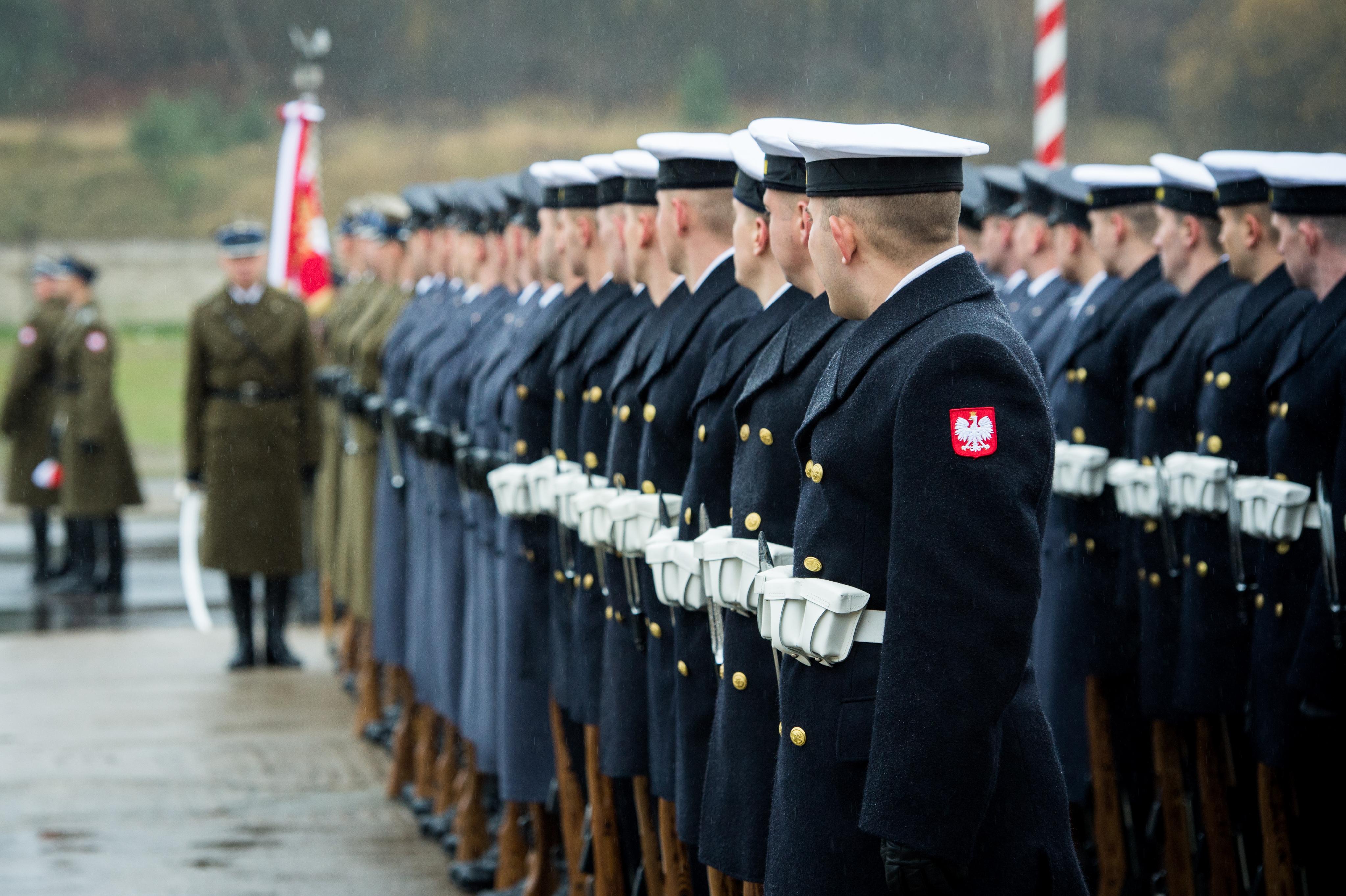 Service Members from the Polish Armed Forces stand in formation during the welcome ceremony for Exercise Steadfast Jazz Live Fire Demonstrations Day, at Drawsko Pomorskie Training Area, Nov. 7. Exercise Steadfast Jazz 2013 is taking place from 1-9 November in a number of Alliance nations including the Baltic States and Poland. The purpose of the exercise is to train and test the NATO Response Force, a highly ready and technologically advanced multinational force made up of land, air, maritime and special forces components that the Alliance can deploy quickly wherever needed. The Steadfast series of exercises are part of NATO’s efforts to maintain connected and interoperable forces at a high-level of readiness. (NATO photo/SSgt Ian Houlding GBR Army)